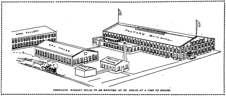 A drawing of the five acre Portland Woolen Mills property in 1904.